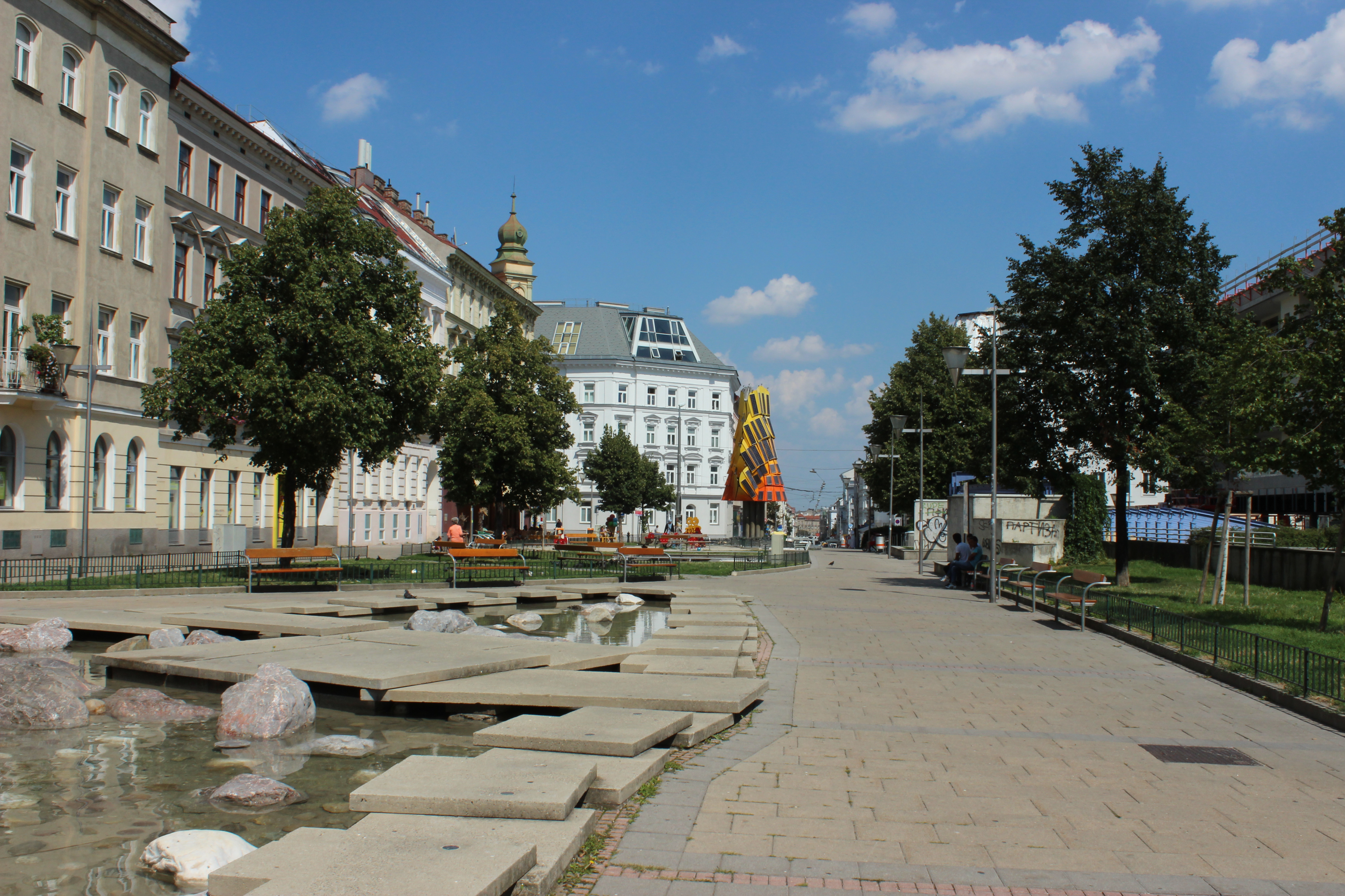 Kardinal-Rauscher-Platz & Wiener Wasserwelt (Vienna Water World - comprising seven modern public fountains) - part of the the sculpture Denkzeichen (thinking signal) looking towards the Lebensbaum (Tree of Life) and the Märzstraße.